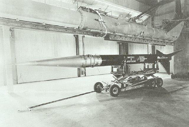 A Black Brant I rocket being prepared for launch.